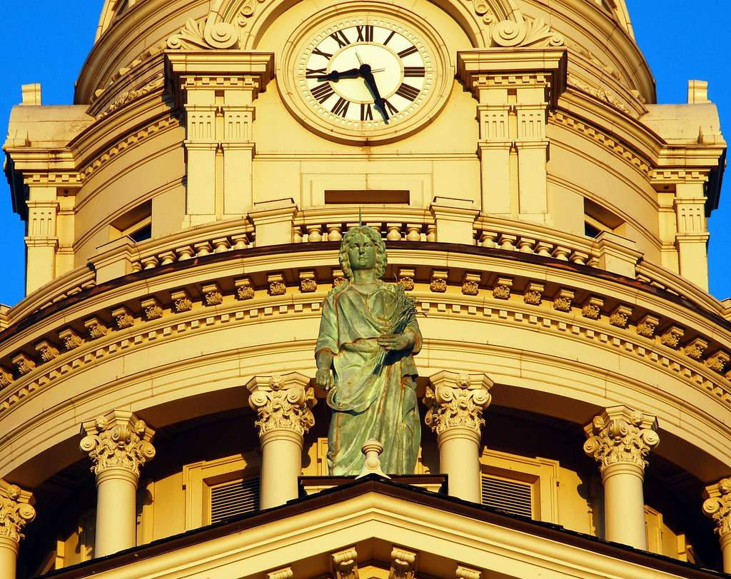 Detail of the clock and the statue of Justice on the Miami County Courthouse in downtown Troy, Ohio, United States.